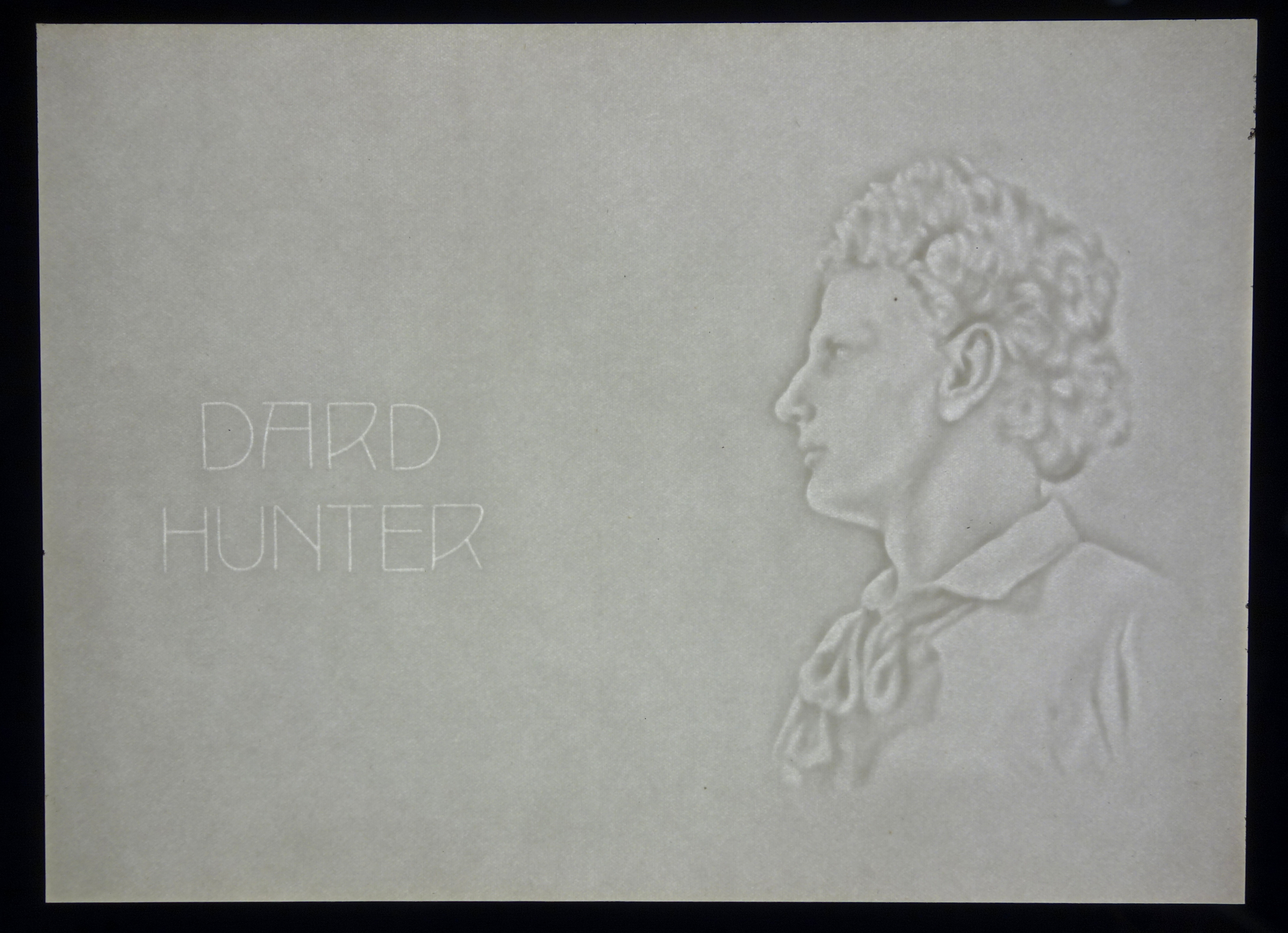 "1837 Watermark", chiaroscuro watermark, exhibit in the Robert C. Williams Paper Museum